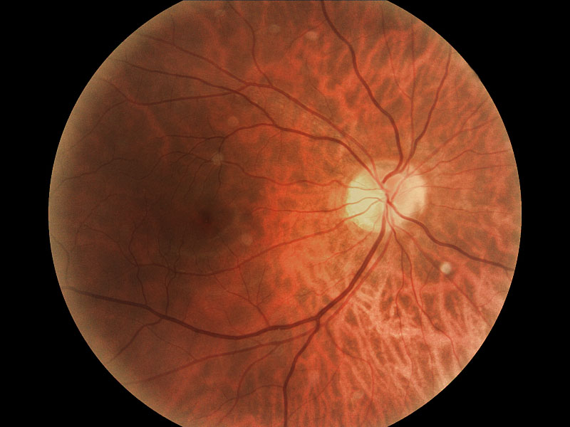 A fundus photograph of the back of the retina. The white area is the beginning of the optical nerve (optic disc). The image in this photo is the right eye of eric anthamatten.